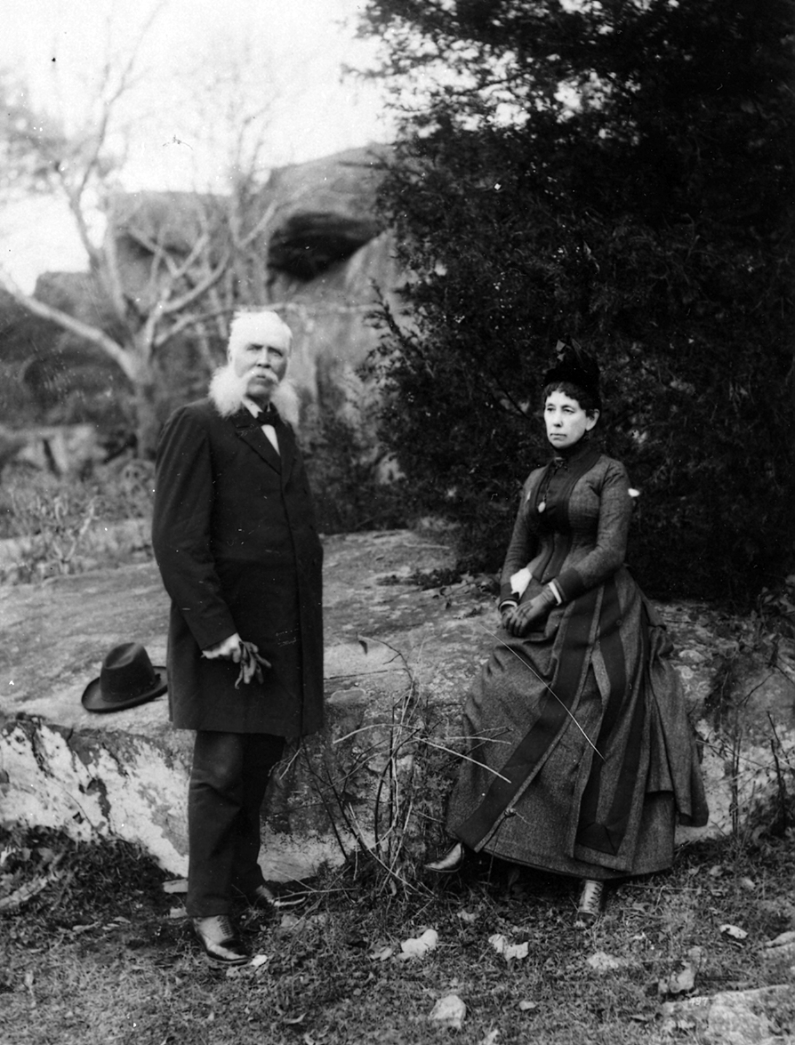 John Badger Bachelder, Civil War chronicler, poses with his wife at Devil's Den in Gettysburg